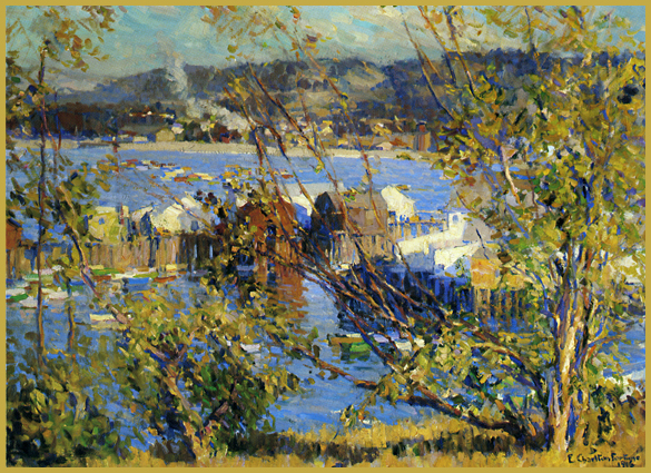 E. Charlton Fortune, Monterey Bay, oil on canvas, 30 x 40 inches (Oakland Museum of California)